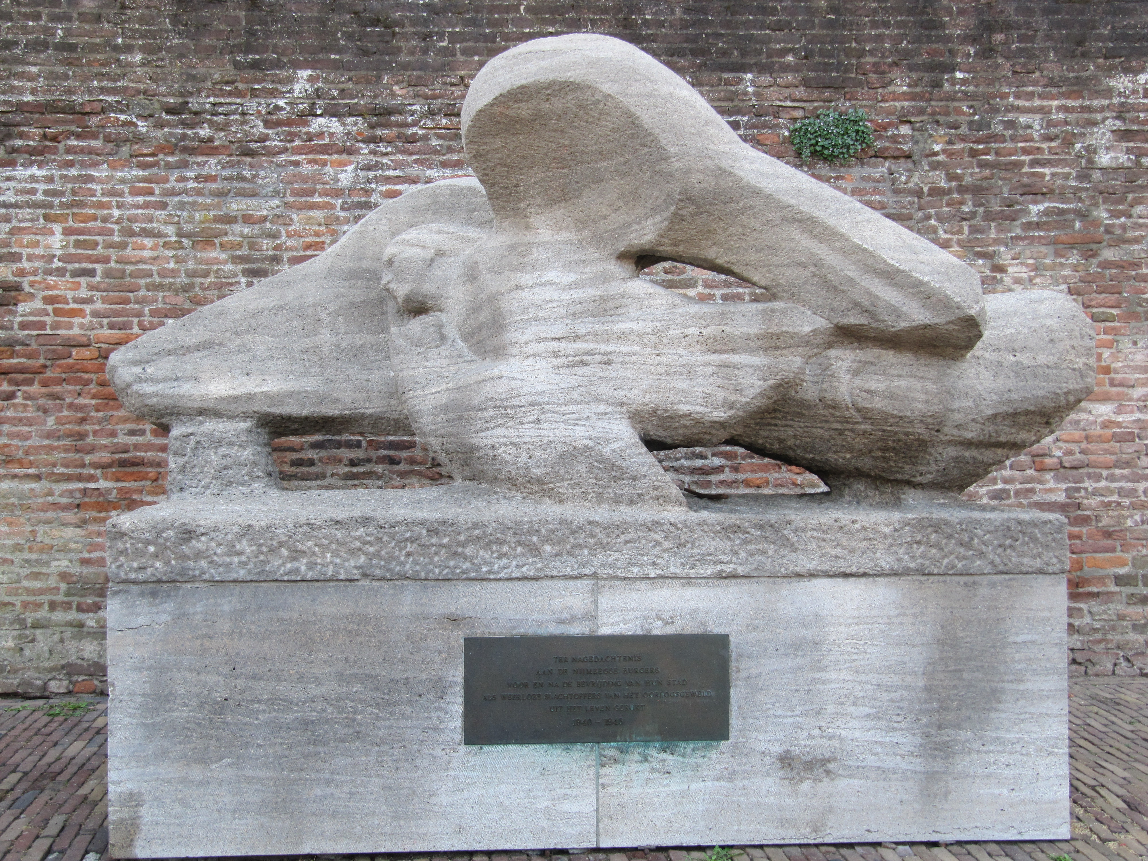 Monument for civil World War II victims of the city of Nijmegen by Mari S. Andriessen in front of the Sint Stevenskerk in Nijmegen, The Netherlands